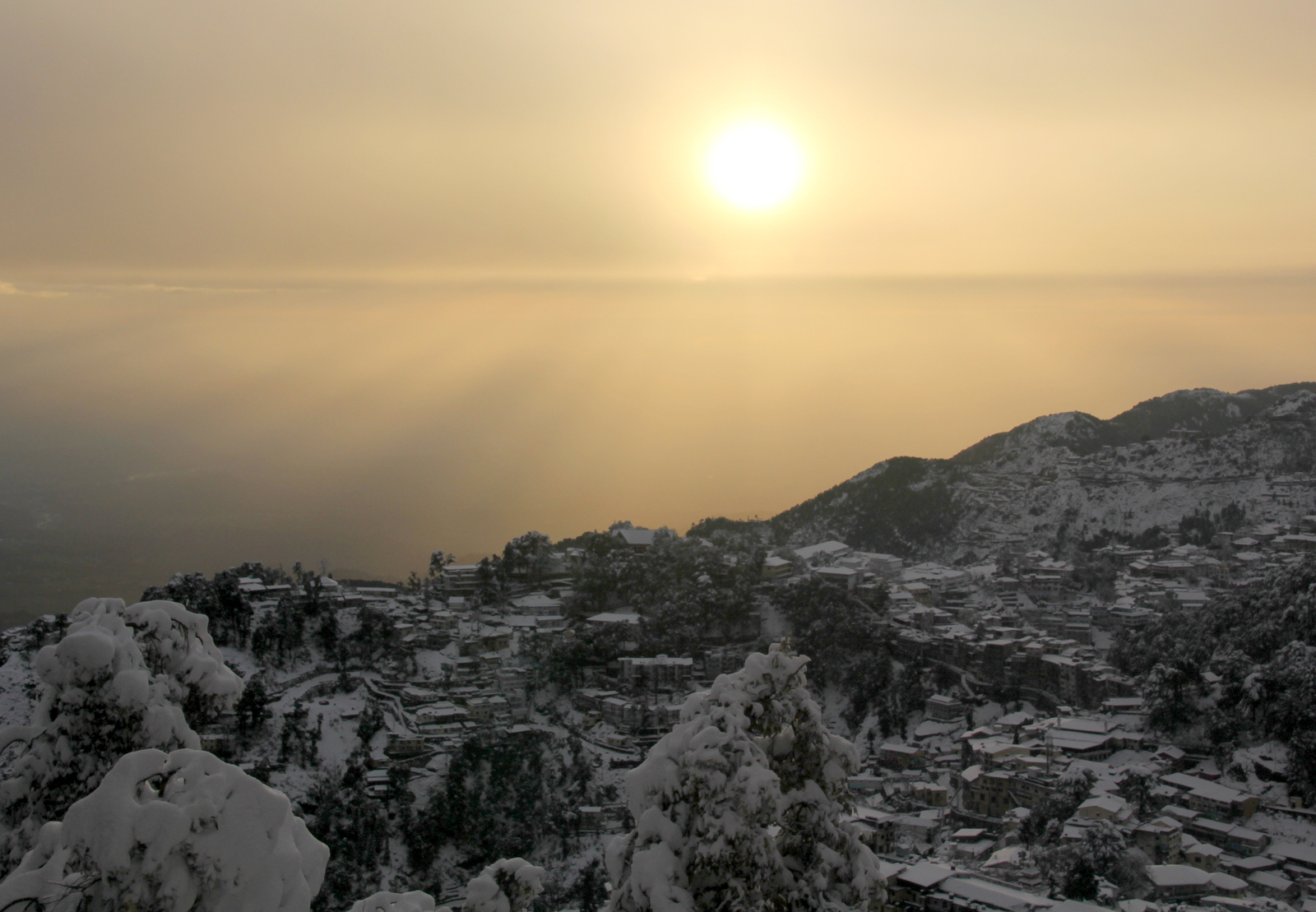 After the Snow Comes the Sun.